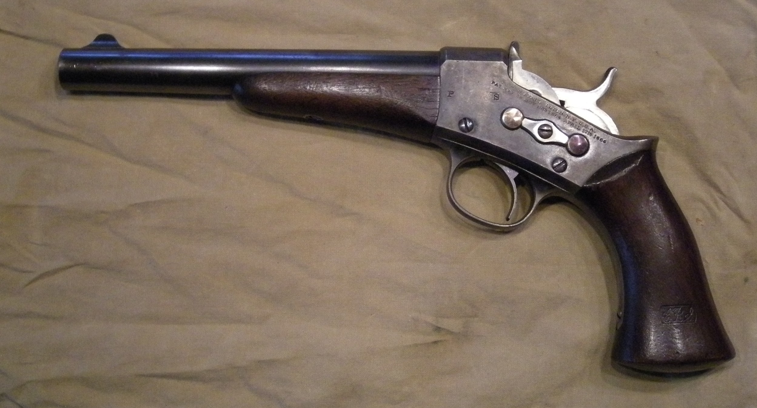 Remington 1871 Pistol